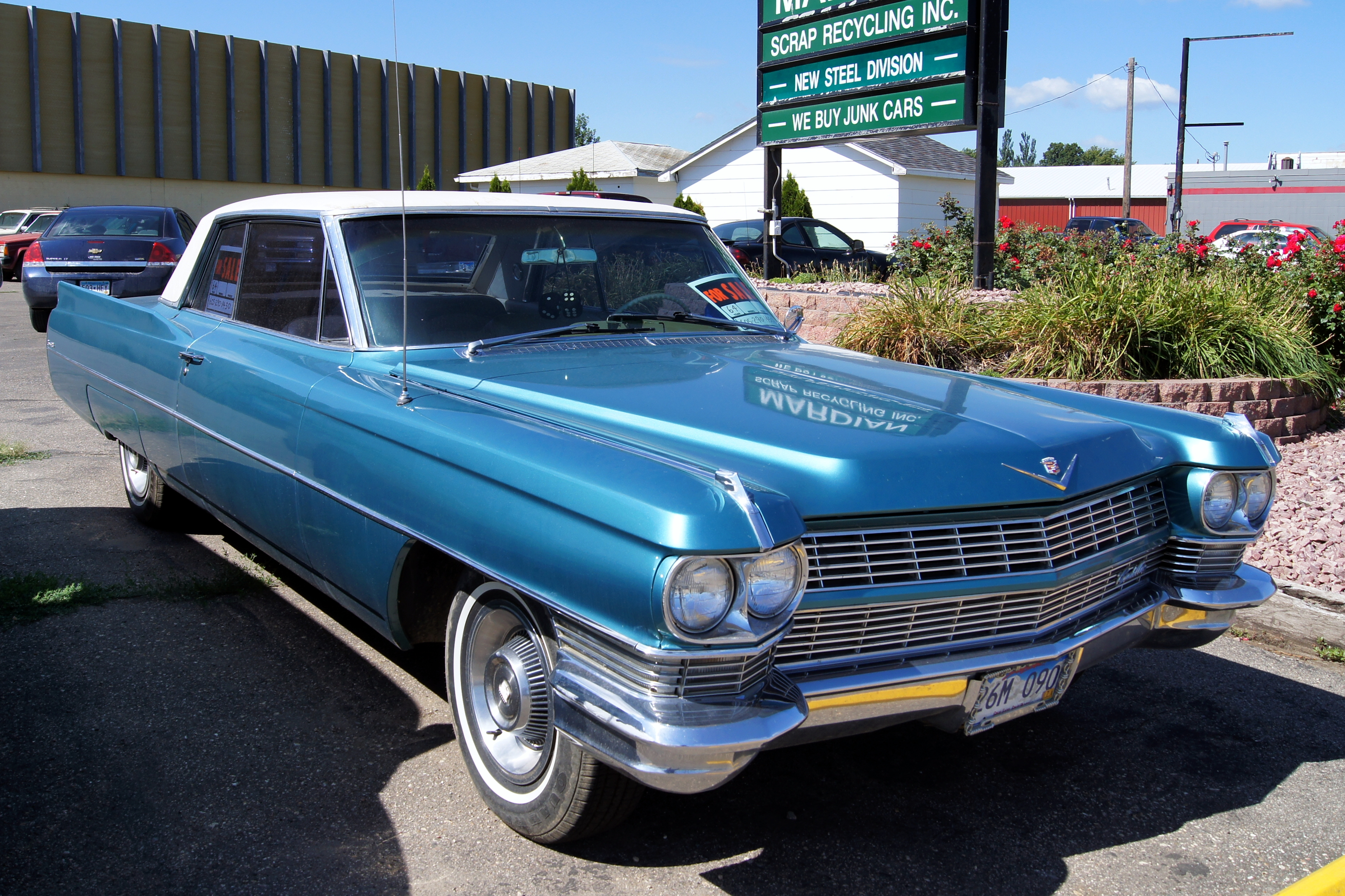 Montana Trip July 2012